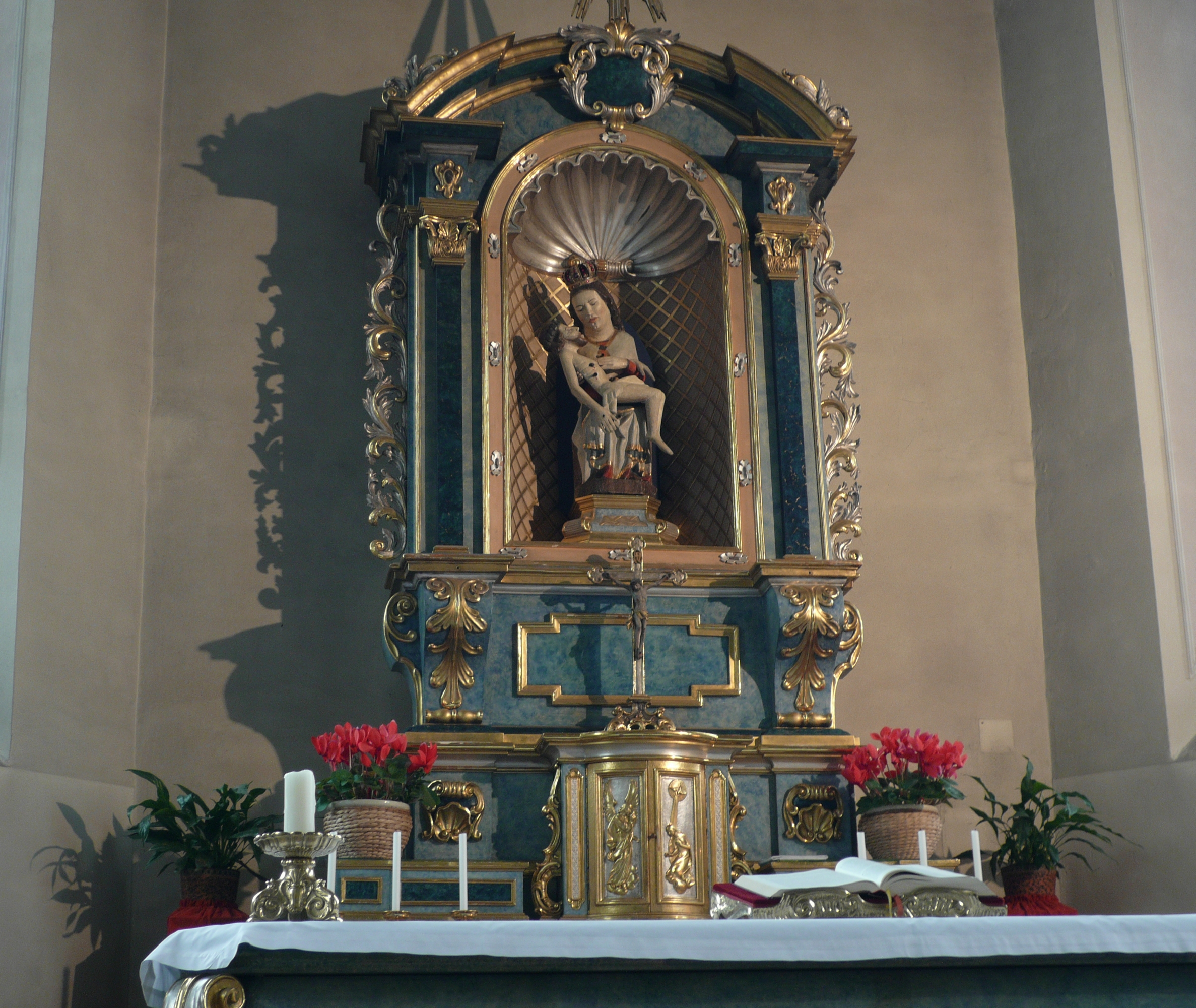 Chapel Heilig-Kreuz-Kapelle in Blieskastel, interior